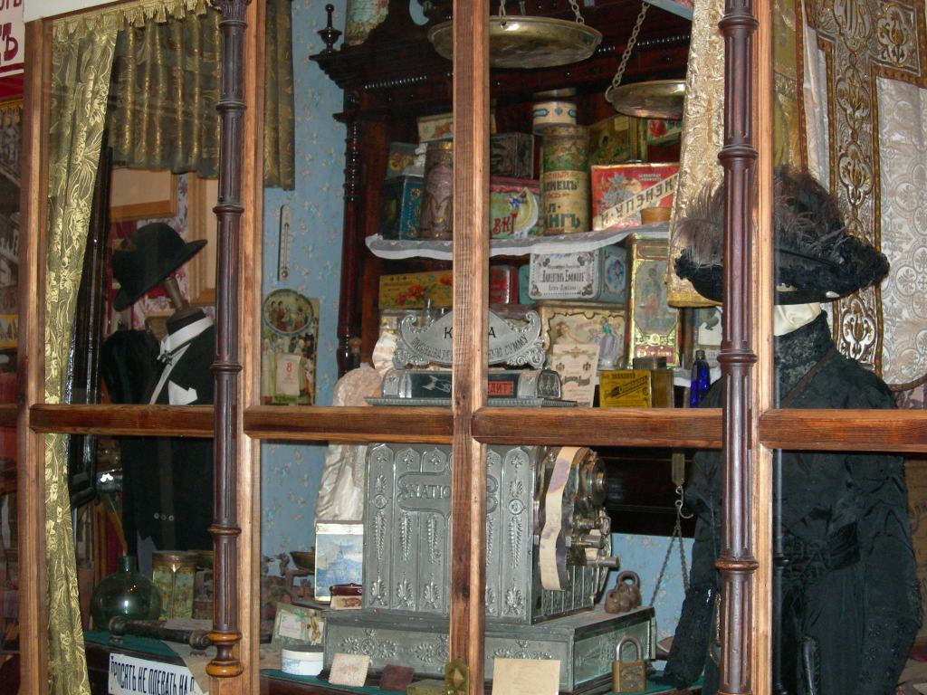 author Marina Kozyr